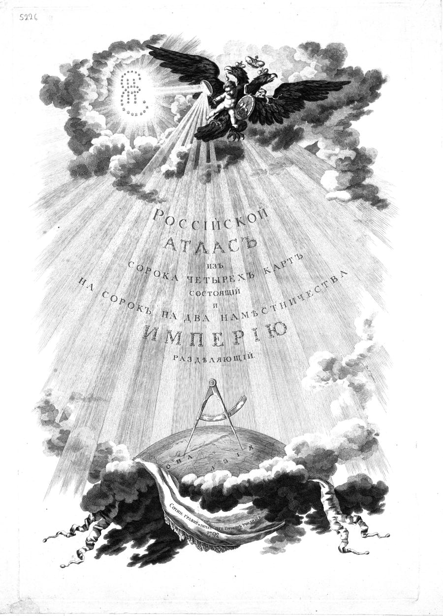 Title-page of official Atlas of Russian Empire (1792).